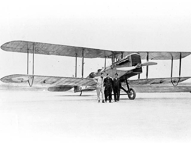 de Havilland (Airco) DH9A